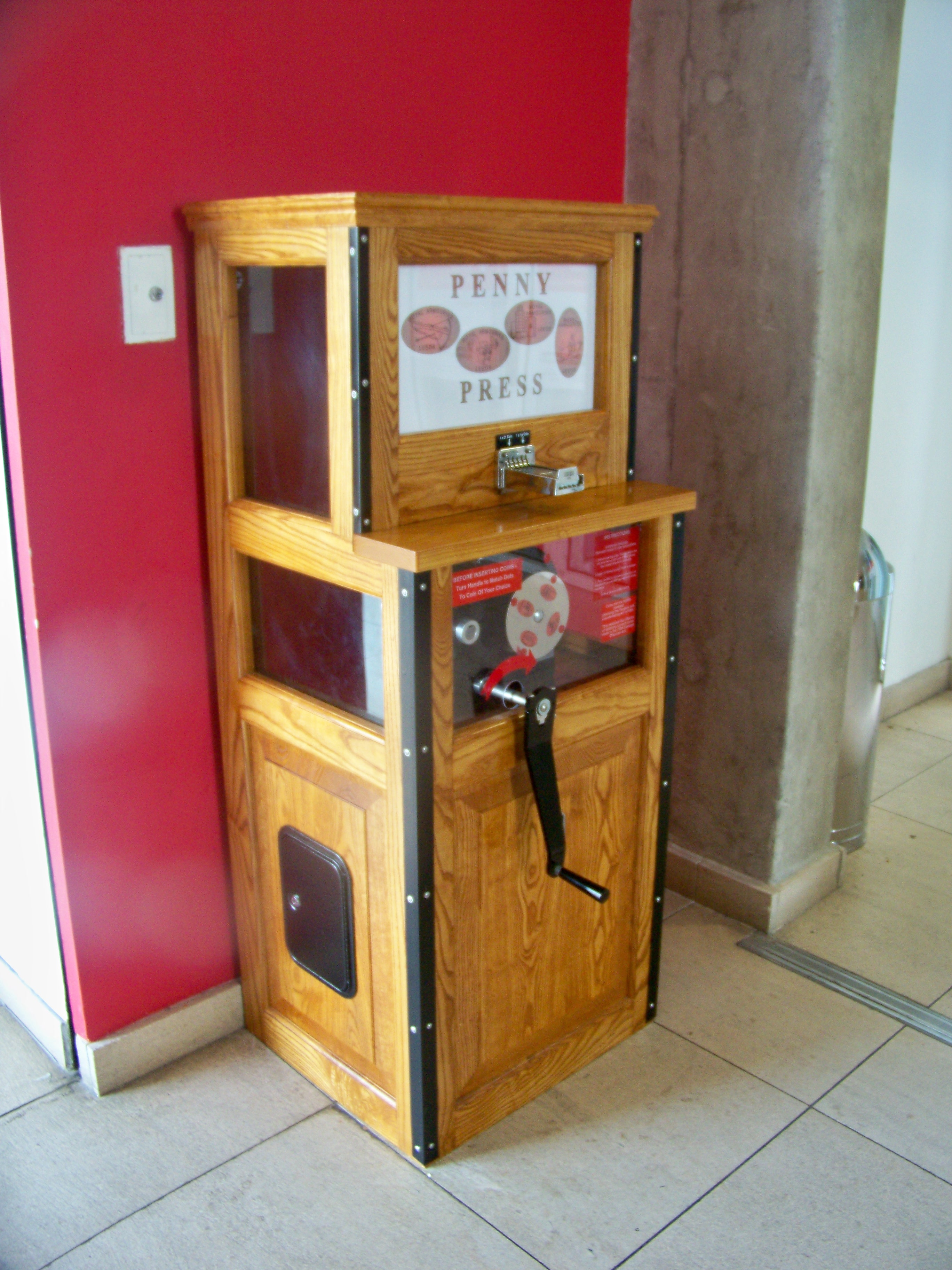 A penny press at the Royal Armouries in Leeds, West Yorkshire. Taken on the afternoon of Thursday the 24th of June 2010.